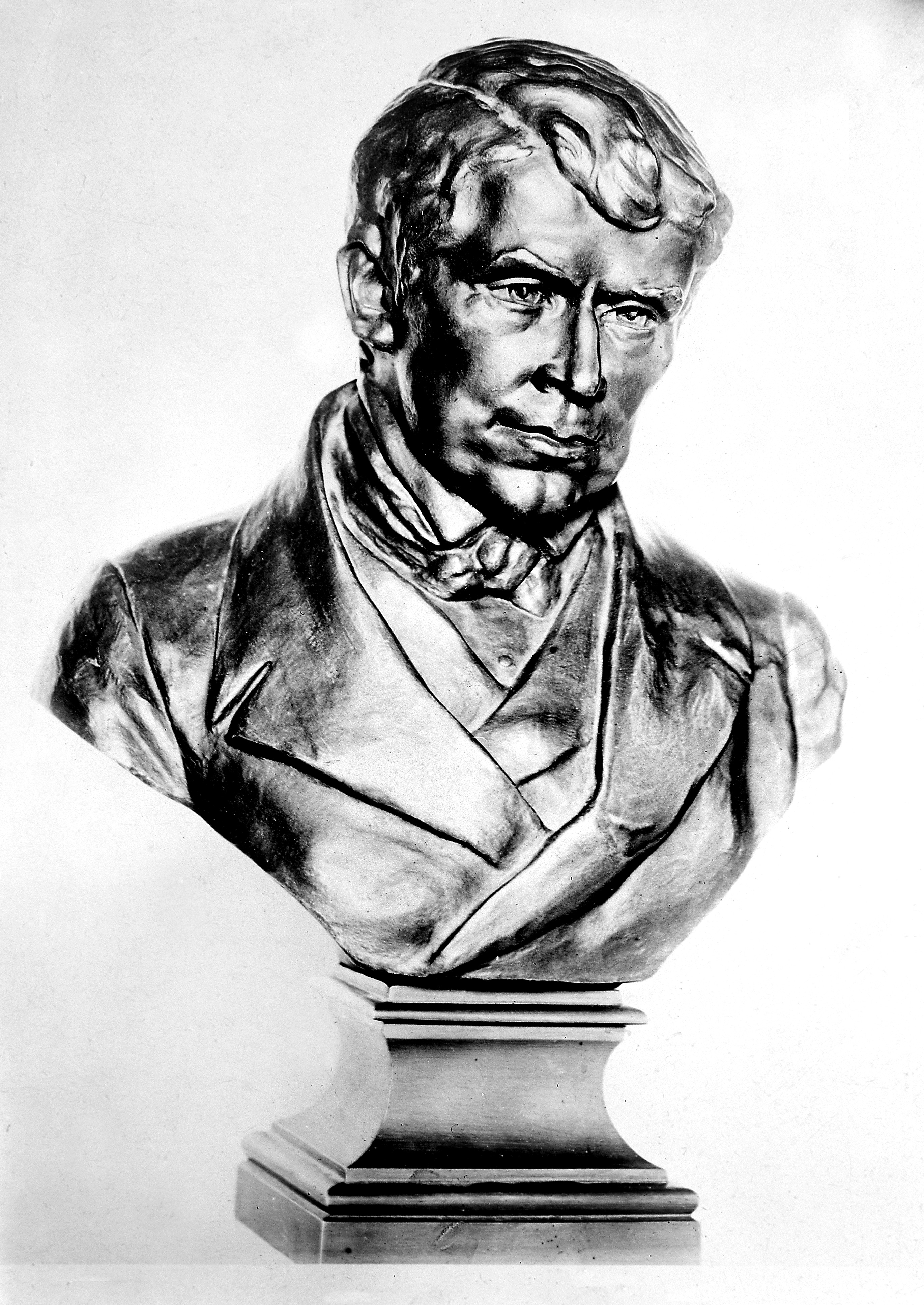 Bust of Alexandre Vinet by Mrs Fanny Byse then in Switzerland. Wellcome Images Keywords: Byse, Fanny; Vinet, Alexandre